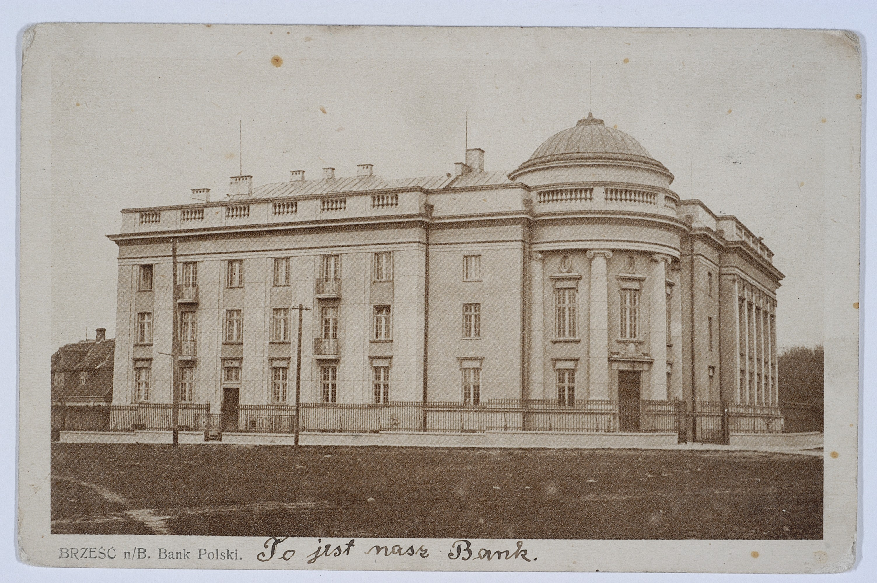 State Bank in Bieraście